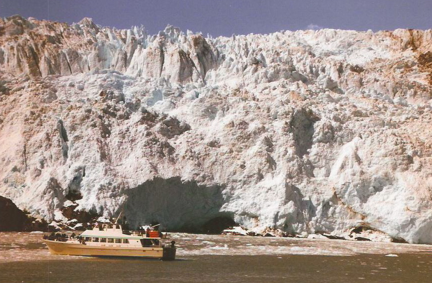 Holgate Glacier, Kenai Fjords National Park, Alaska